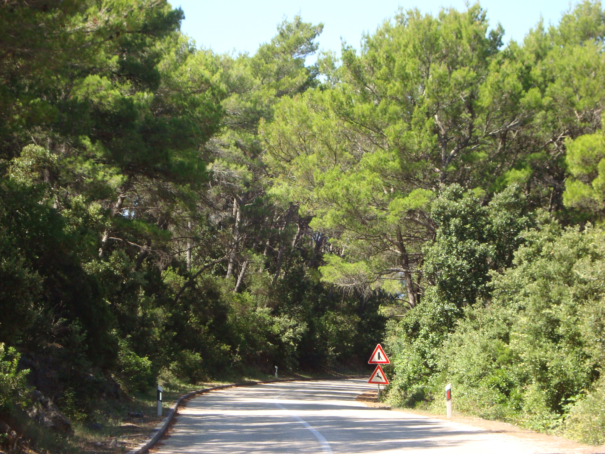 Crna klada, the beginning of the National park Mljet, Croatia